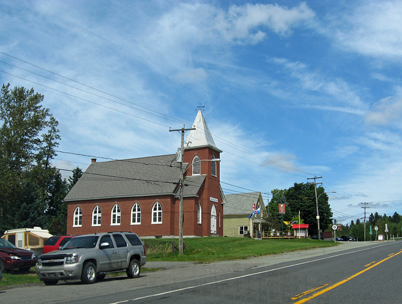 Gould church